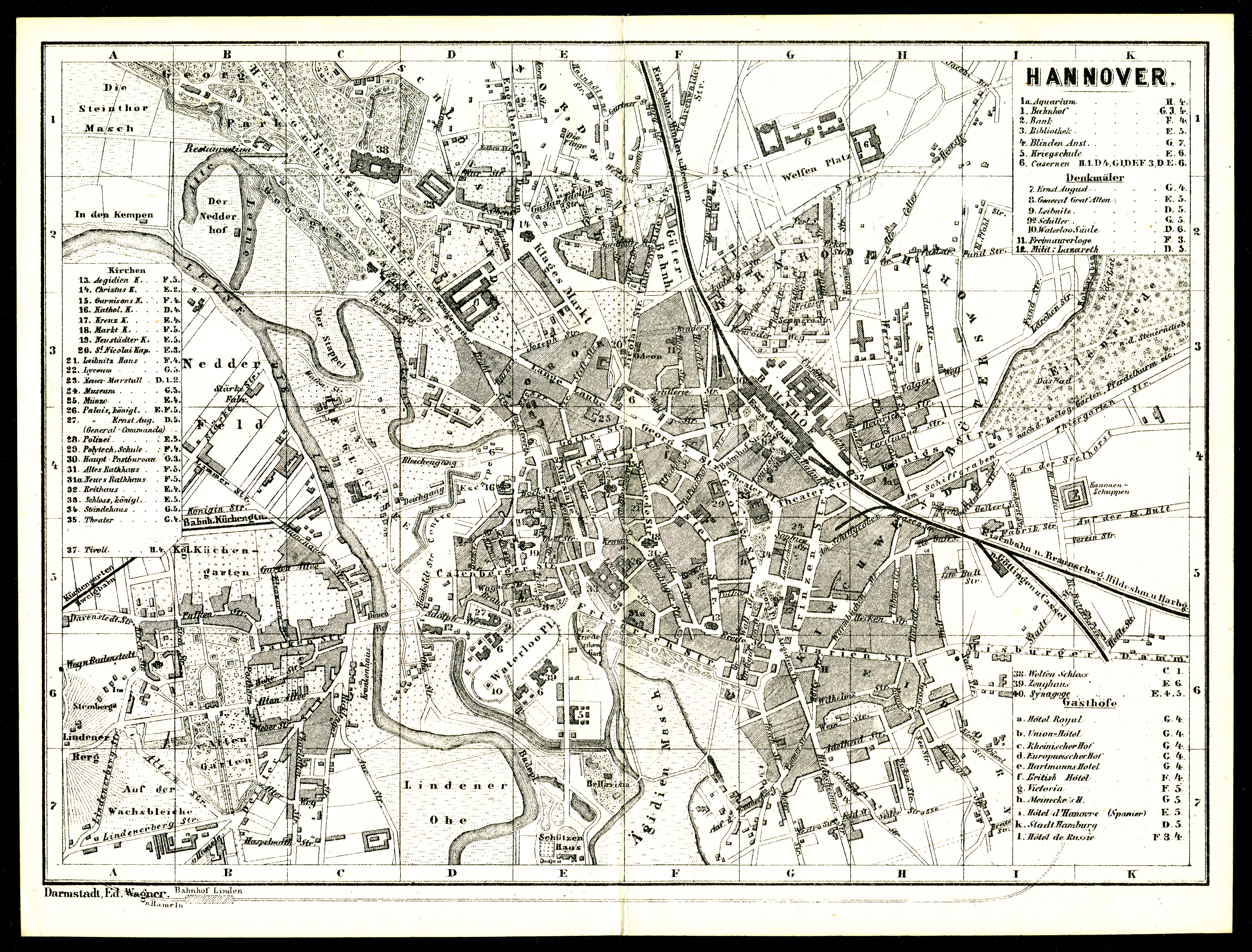 Map of Hanover